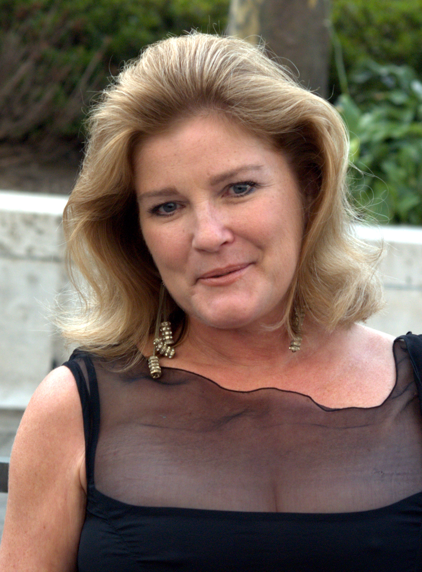 Kate Mulgrew at the 2009 premiere of the Metropolitan Opera in New York City. Photographer's blog post about event and photograph.